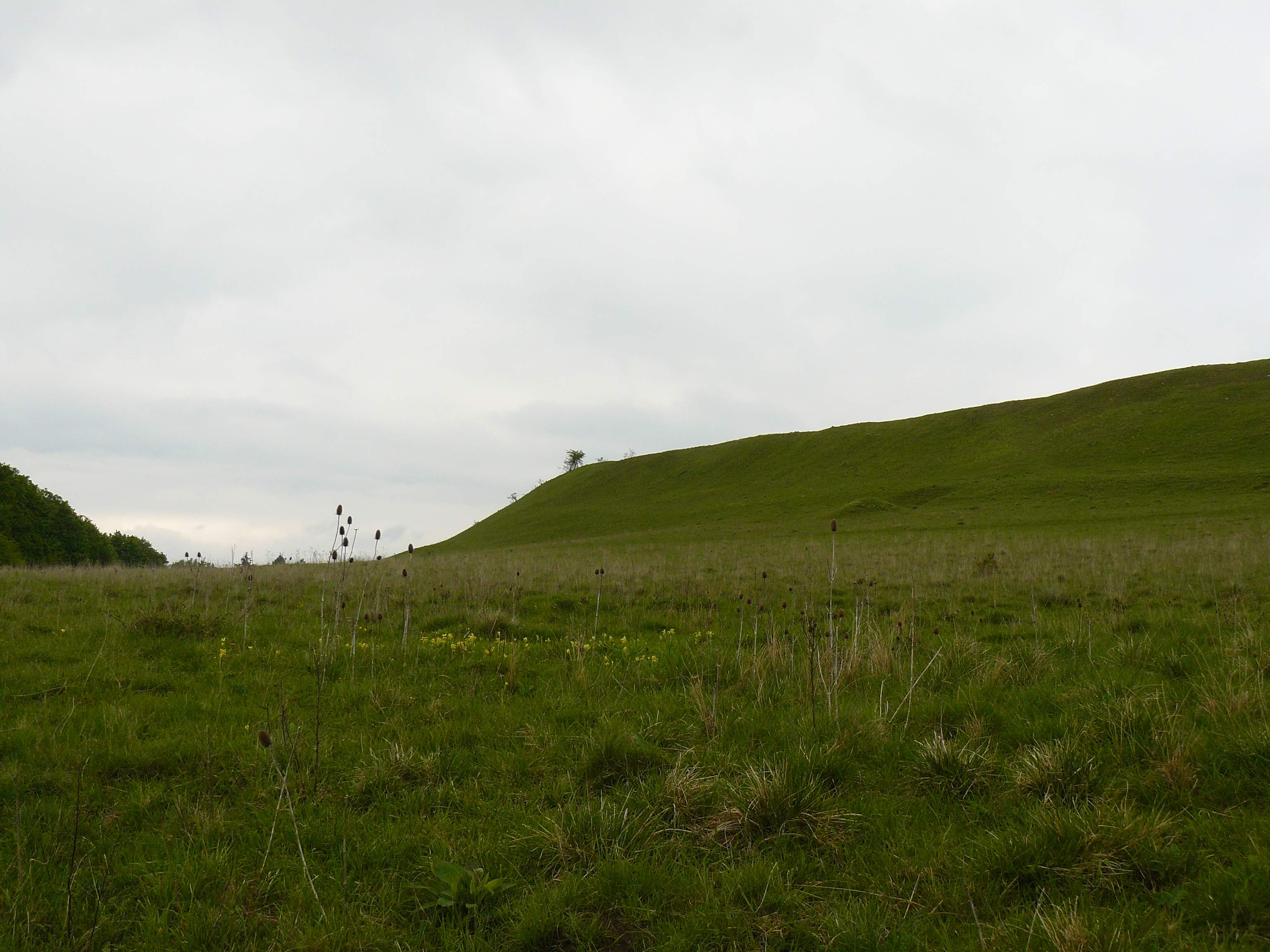 Gelbe Bürg, Mittelfranken